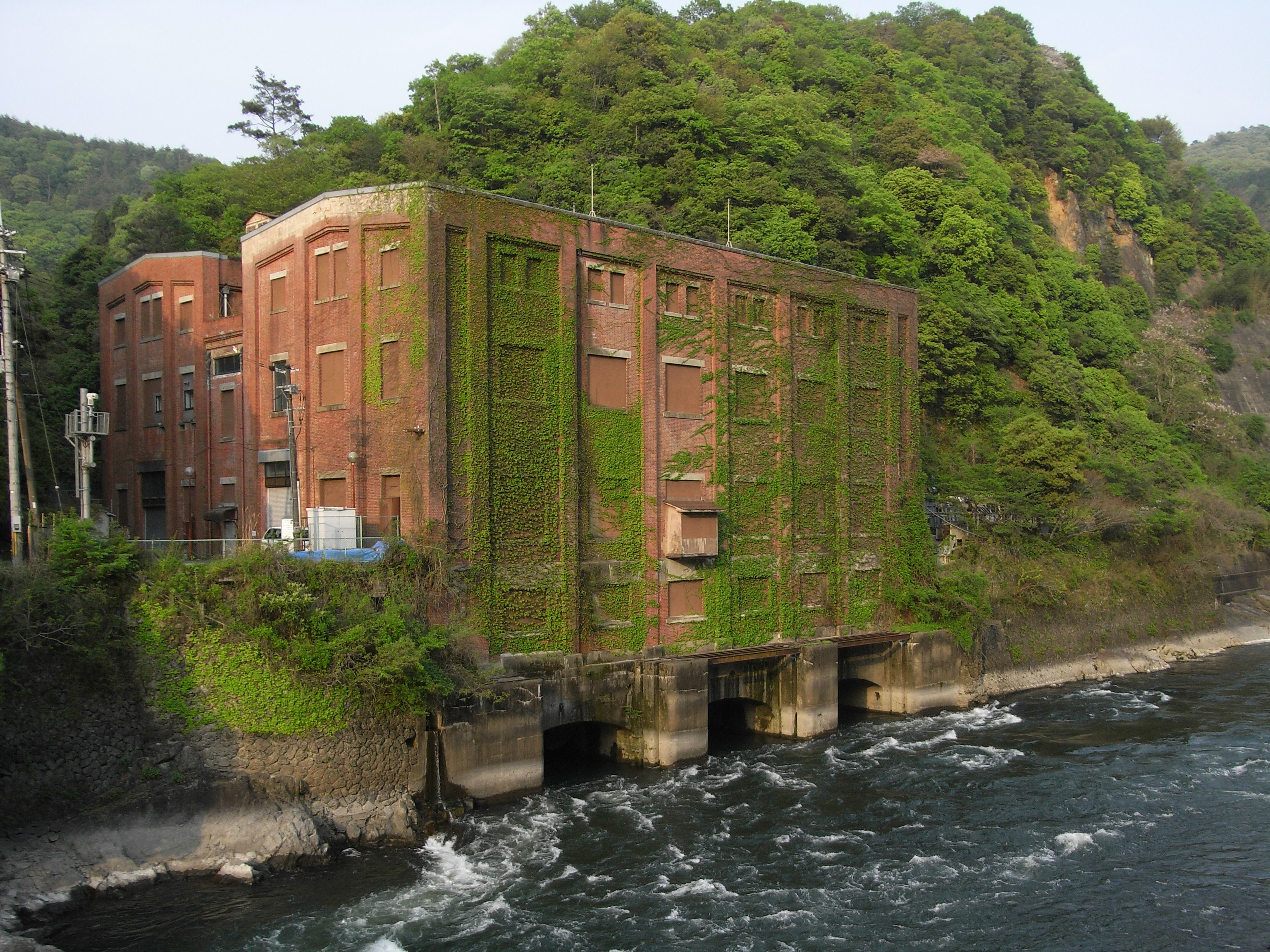 Hydroelectric powerplant